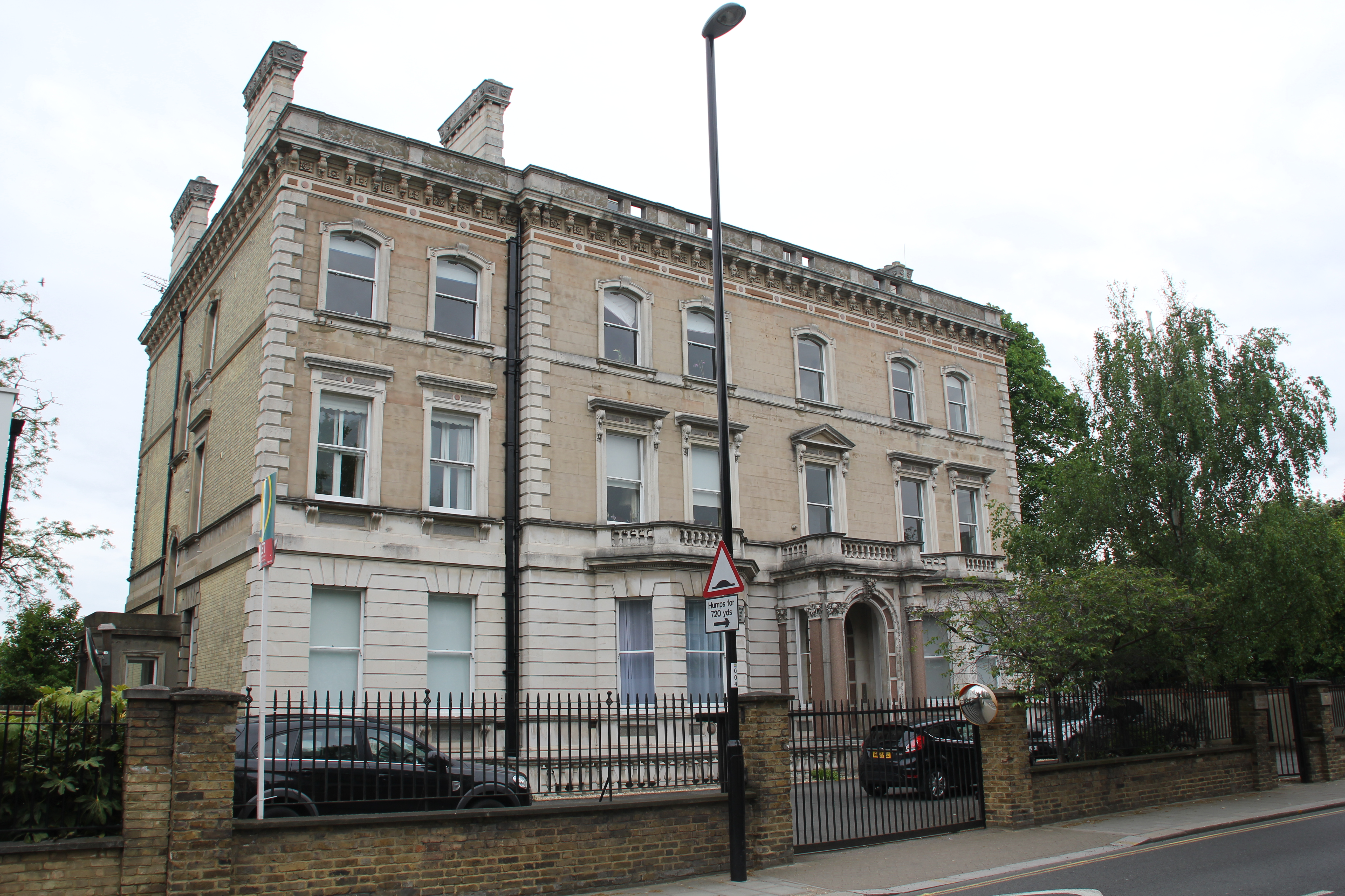 Wyberton House, Lee Terrace, London SE3